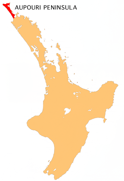 Location map of Aupori Peninsula, New Zealand